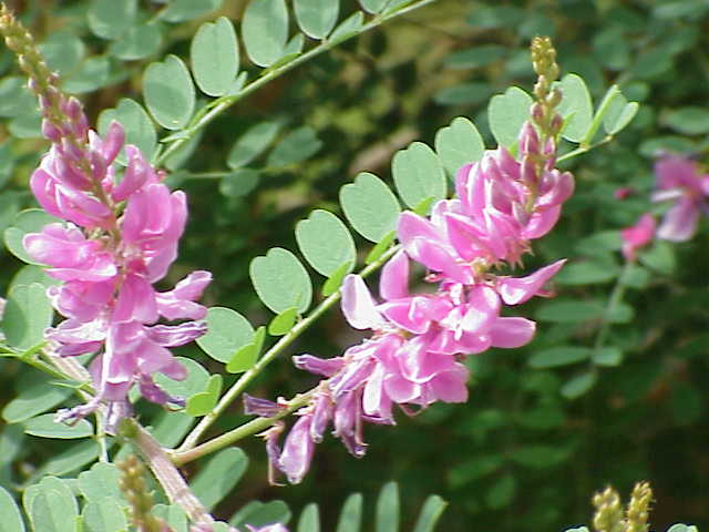 Species: Indigofera tinctoria Family: Fabaceae Image No. 1